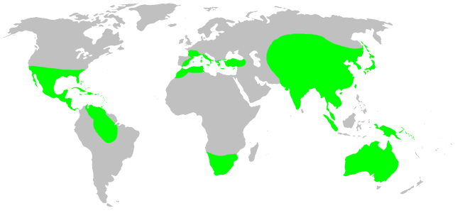 Ctenizidae habitat distribution, drawn after Platnick: World Spider Catalog 7.0. This is not a precise rendering of the distribution! If you have better information, please replace this map, or send me the info, so i will redraw it.